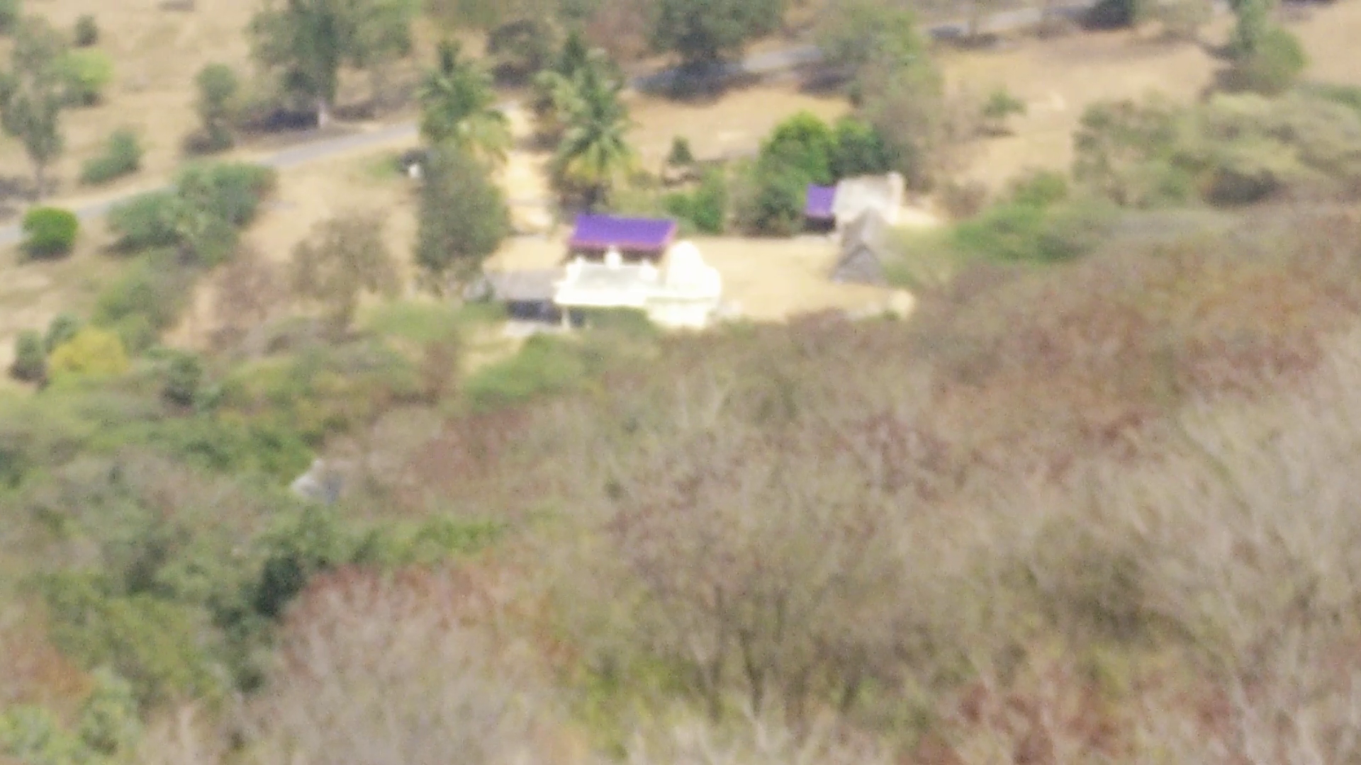 Si ThenVenkatachalapathy Koil